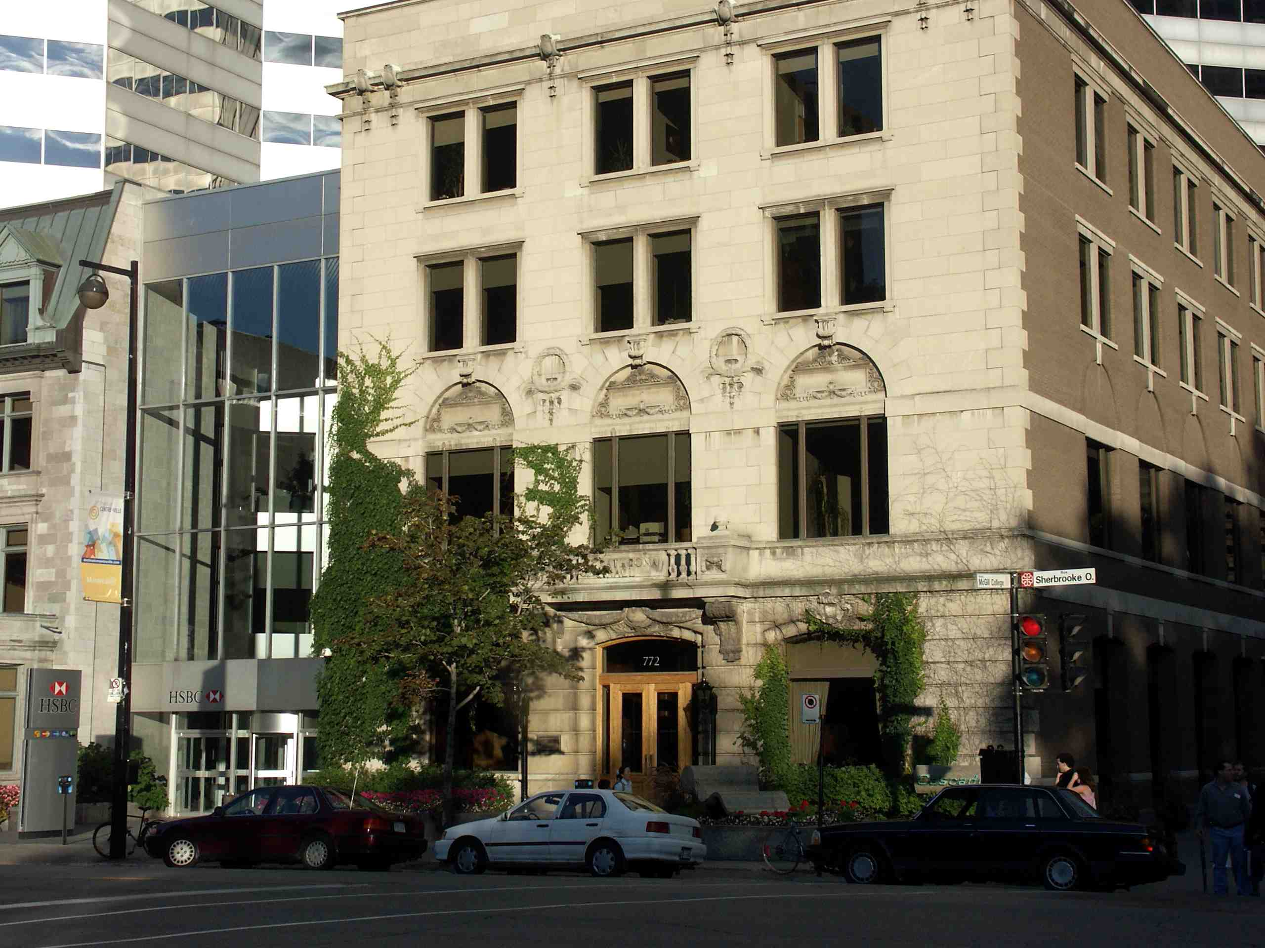 Papiers Cascades, Montreal offices on Sherbrooke Street West. Photo by: User:Gene.arboit